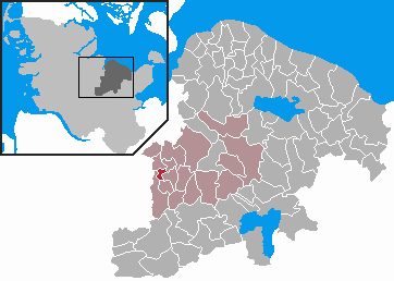 This map shows the area of the Gemeinde (municipality) Kirchbarkau in the Kreis (district) Plön, Schleswig-Holstein, Germany.